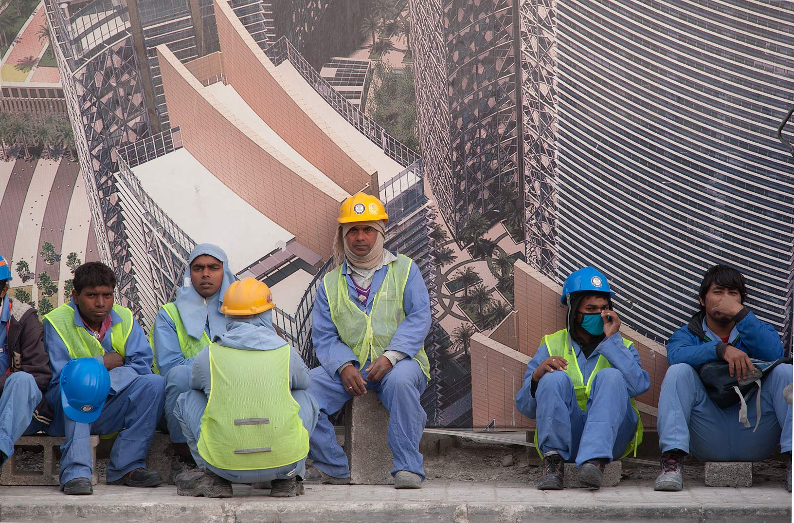 Migrant workers from Asia next to the QP building in the West Bay area of Doha, Qatar waiting for a bus.